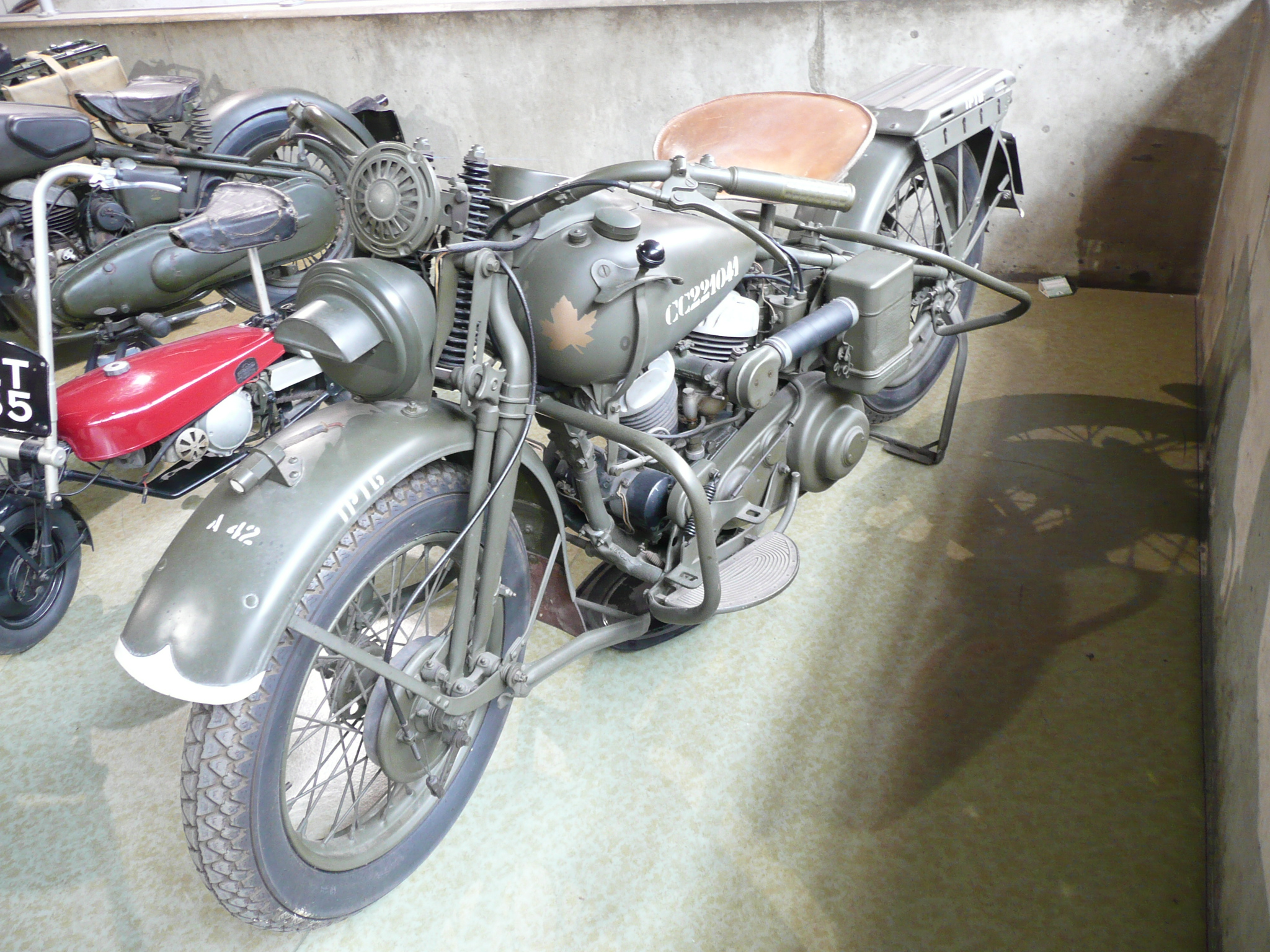 1942 Harley-Davidson 42 WLC, National Motor Museum in Beaulieu.